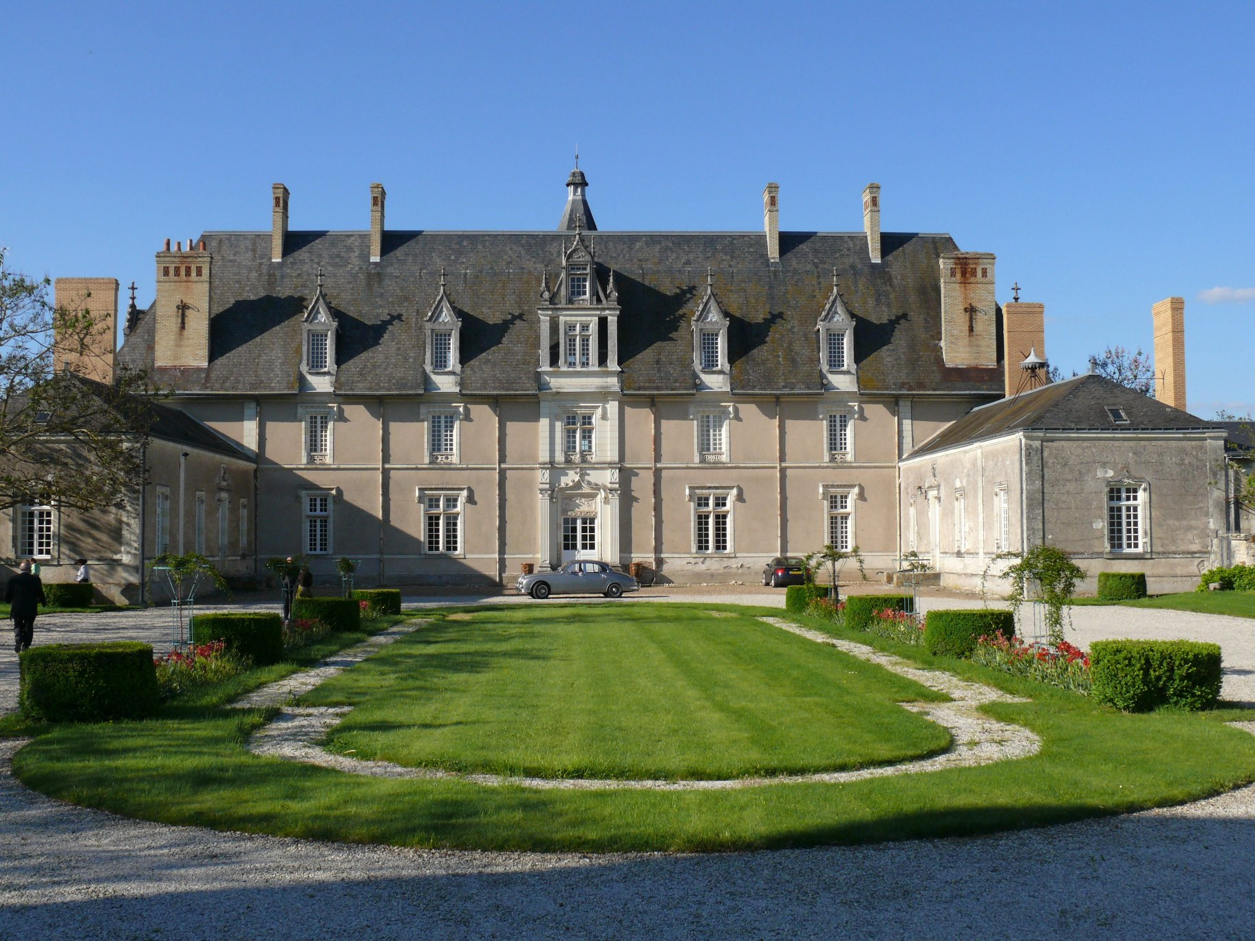 Longue-Plaine Castle in Sorigny (Indre-et-Loire, Centre-Val de Loire, France).